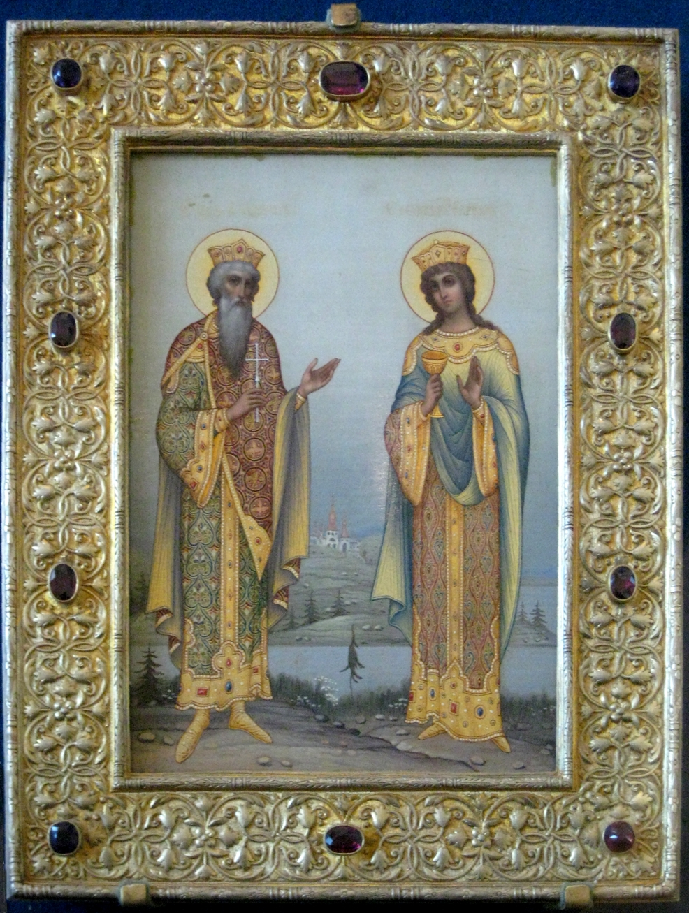 St. Vladimir and St.Barbara. Св. Владимир и Св. Варвара. Оклад изготовлен фирмой П.Овчинникова. Москва, 1908-17 гг.ГИМ